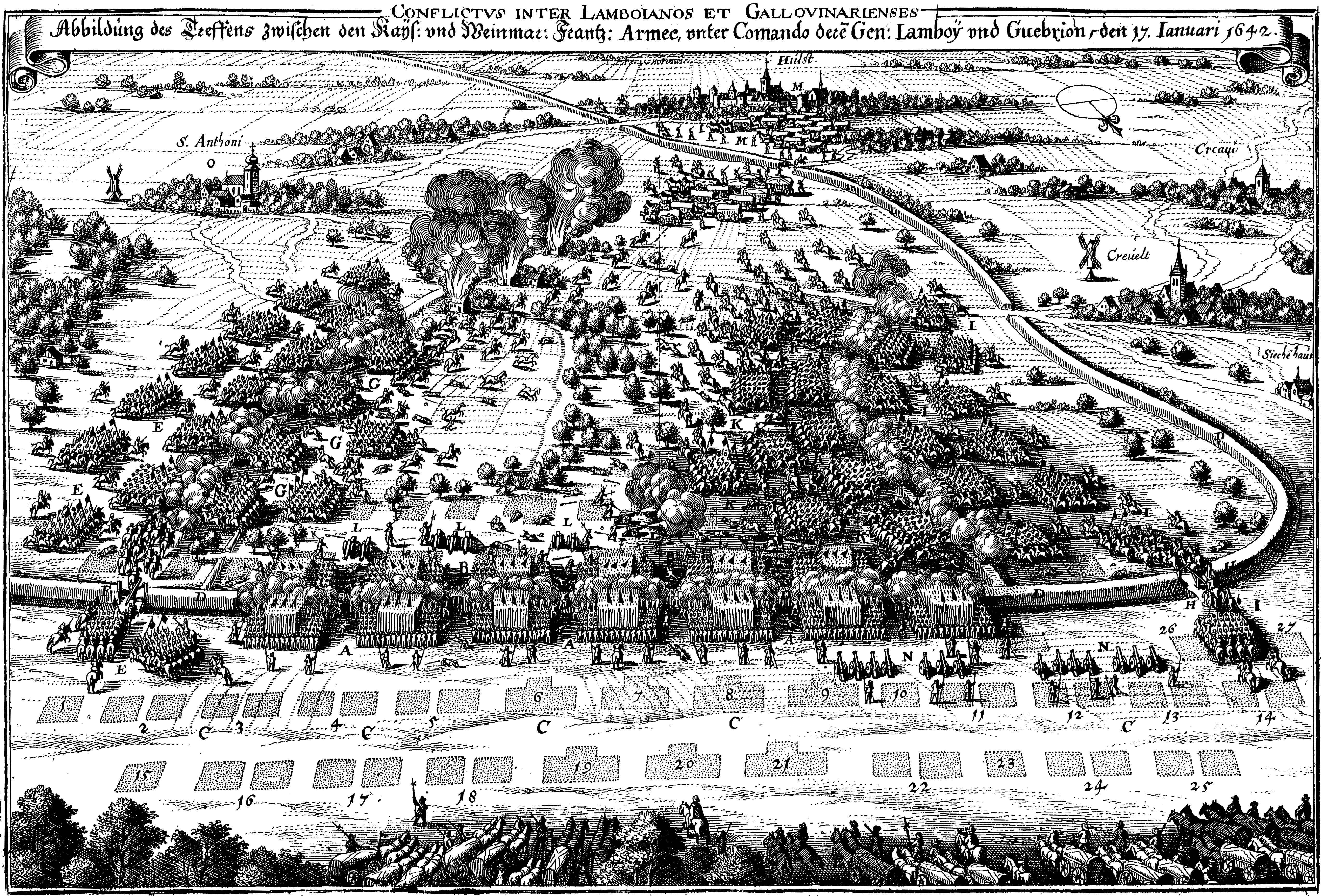 Merian engraving of the "Schlacht auf der Kempener Heide"